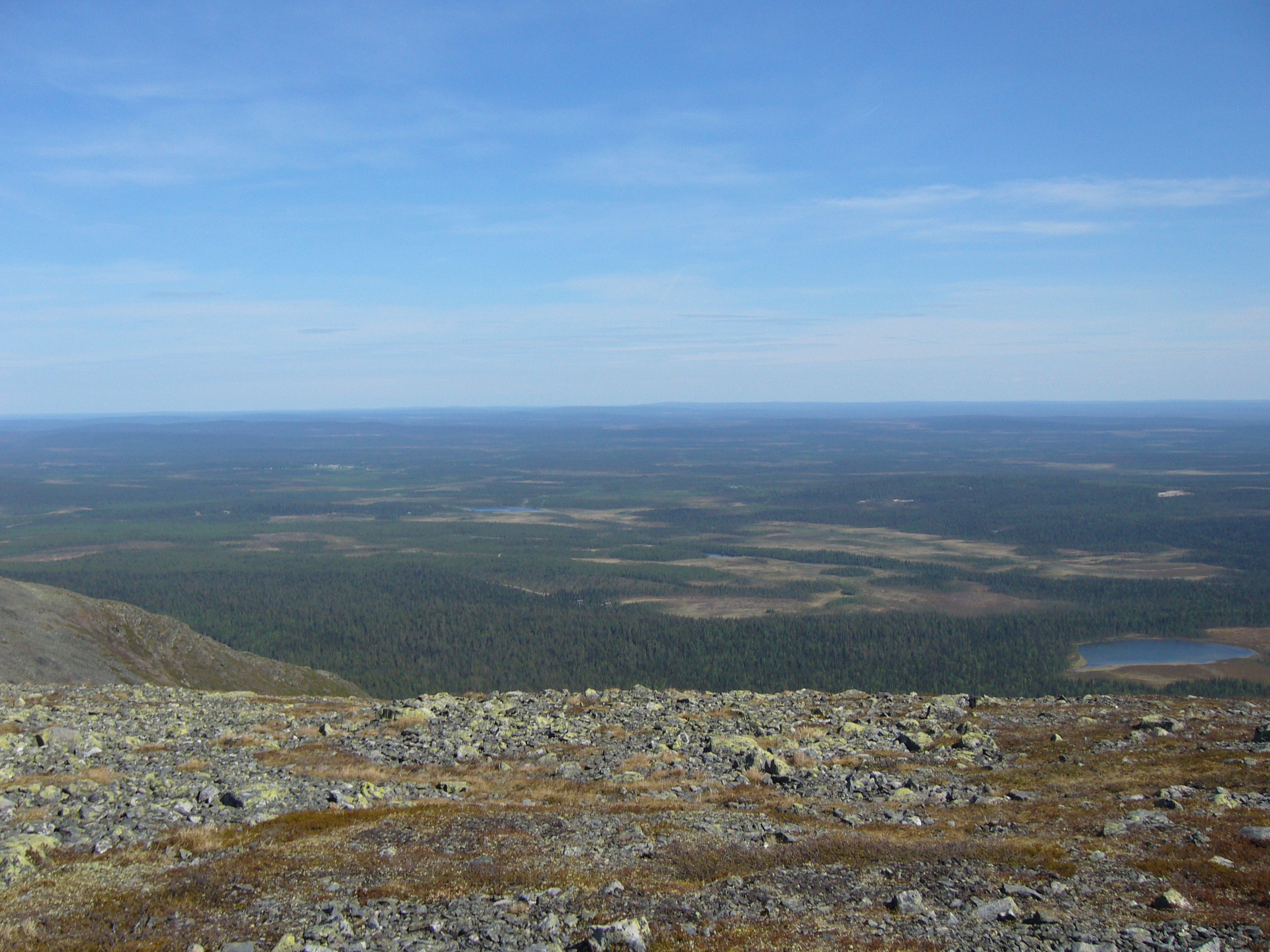 Pallas-Yllästunturi National Park in Muonio, Finland.